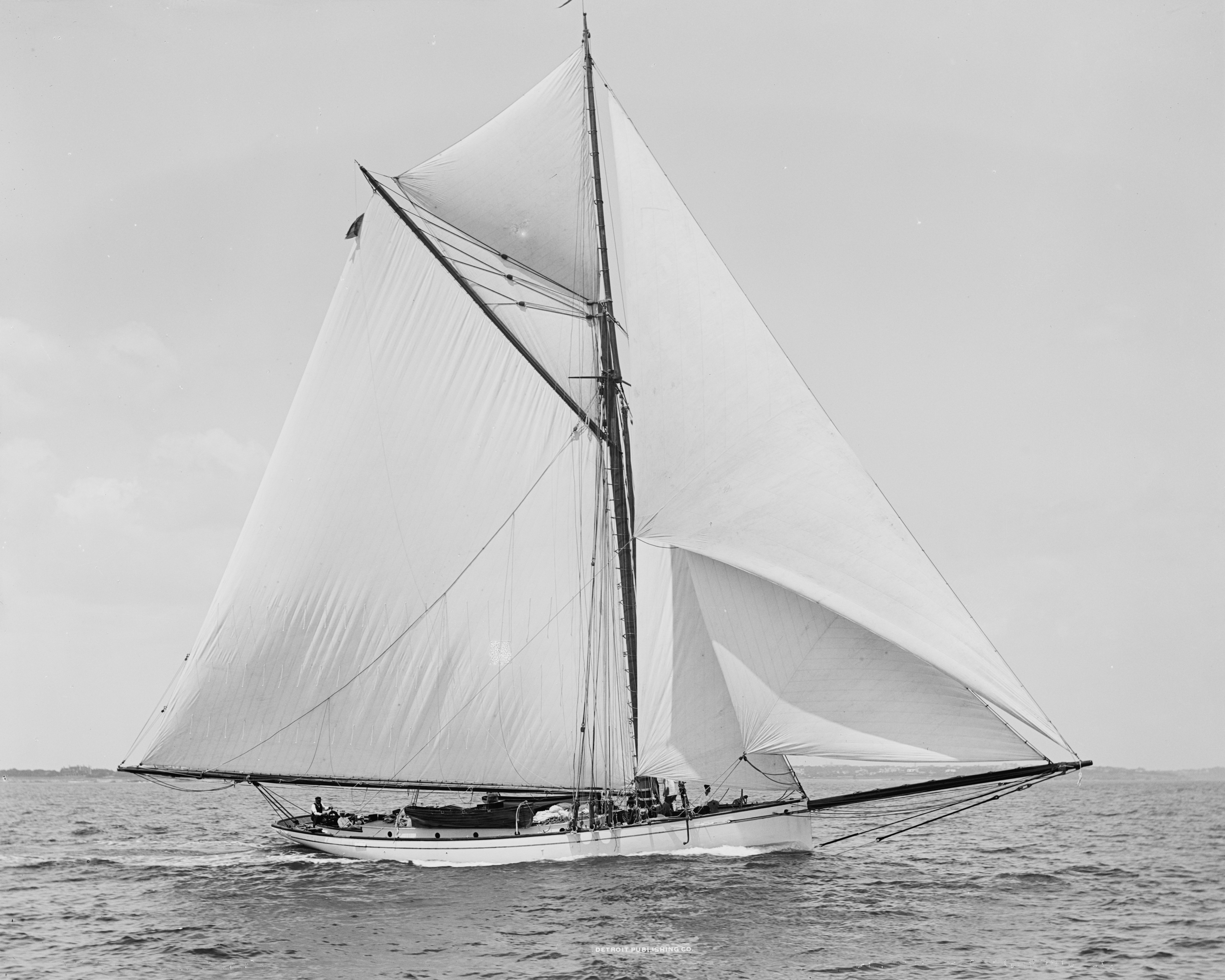 Joseph Richard Busk's iron sloop Mischief (Archibald Cary Smith design, 1879). She successfully defended the America's Cup in 1881. She is pictured here in Morgan Cup on August 8th, 1891, which she won in her class. New York Times - Yachts at Cottage City